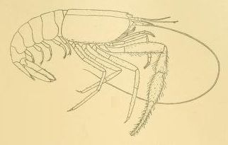 Typhlocaris galilea, a plate from On a blind Prawn from the Sea of Galilee (Typhlocaris galilea, g. et sp. n.), Transactions of the Linnean Society of London, 2nd ser., Zoology 11 (5): 93–97.